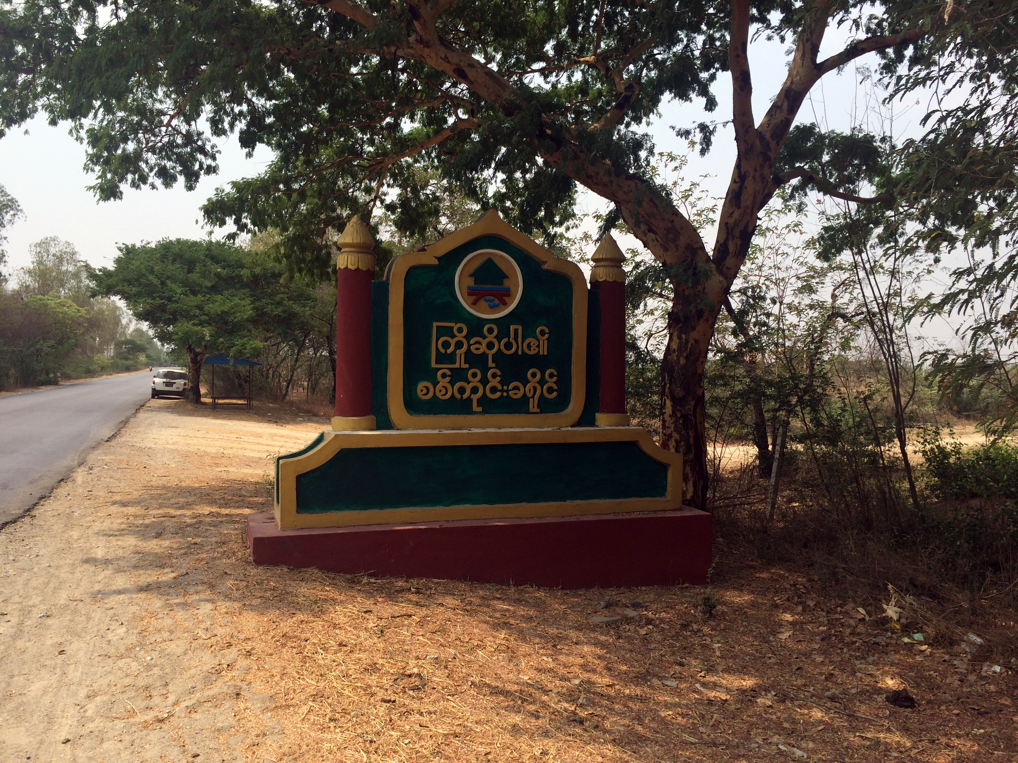 Junction between Sagaing District and Shwebo District မြန်မာဘာသာ: စစ်ကိုင်းခရိုင်နှင့် ရွှေဘိုခရိုင် နယ်နမိတ်ထိတွေ့ရာ နေရာ